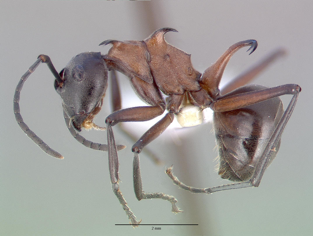 Profile view of ant Polyrhachis taylori specimen casent0010665.